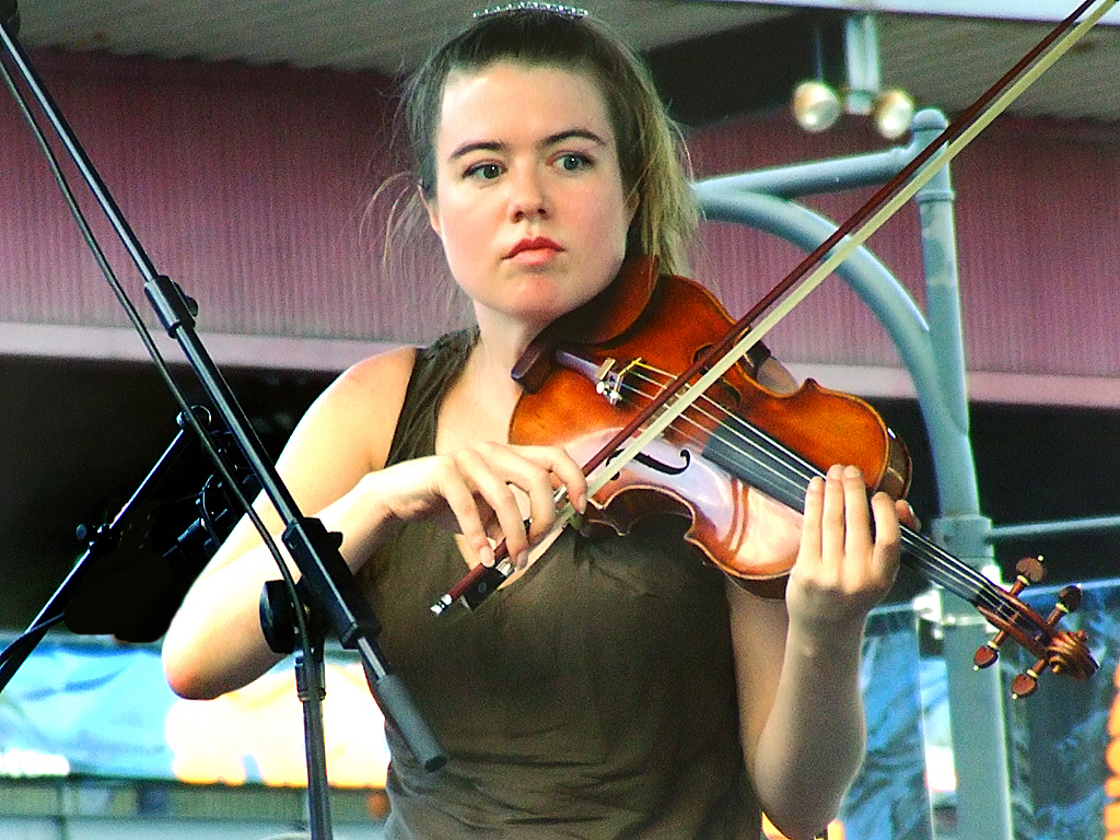 Violinist Lara St. John performing at South Street Seaport in NYC - July 12, 2007 - Photo by Anthony Pepitone